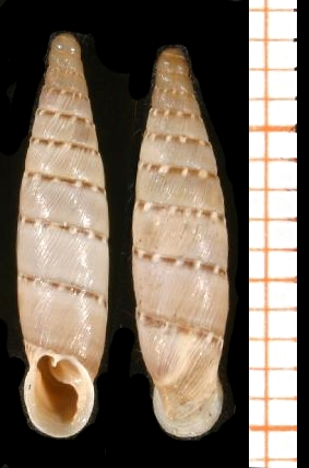 Papillifera papillaris. Scale is in mm. Locality: Malta: Gozo, between Xewkya and Sannat. Date: October 1987.